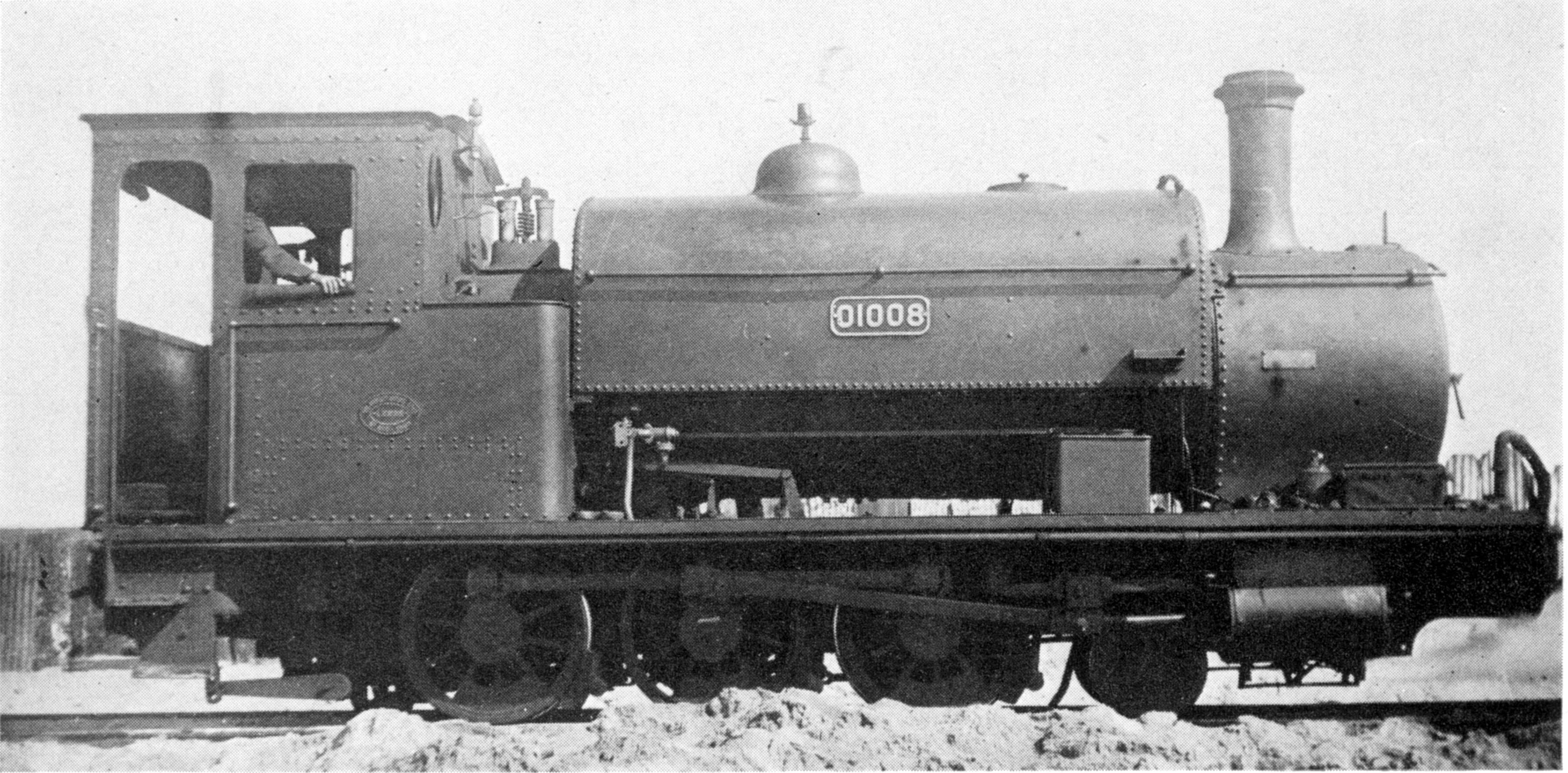 Cape Government Railways 2-6-0ST no. 1008 of 1902, ex Harbour Board Table Bay no. 25